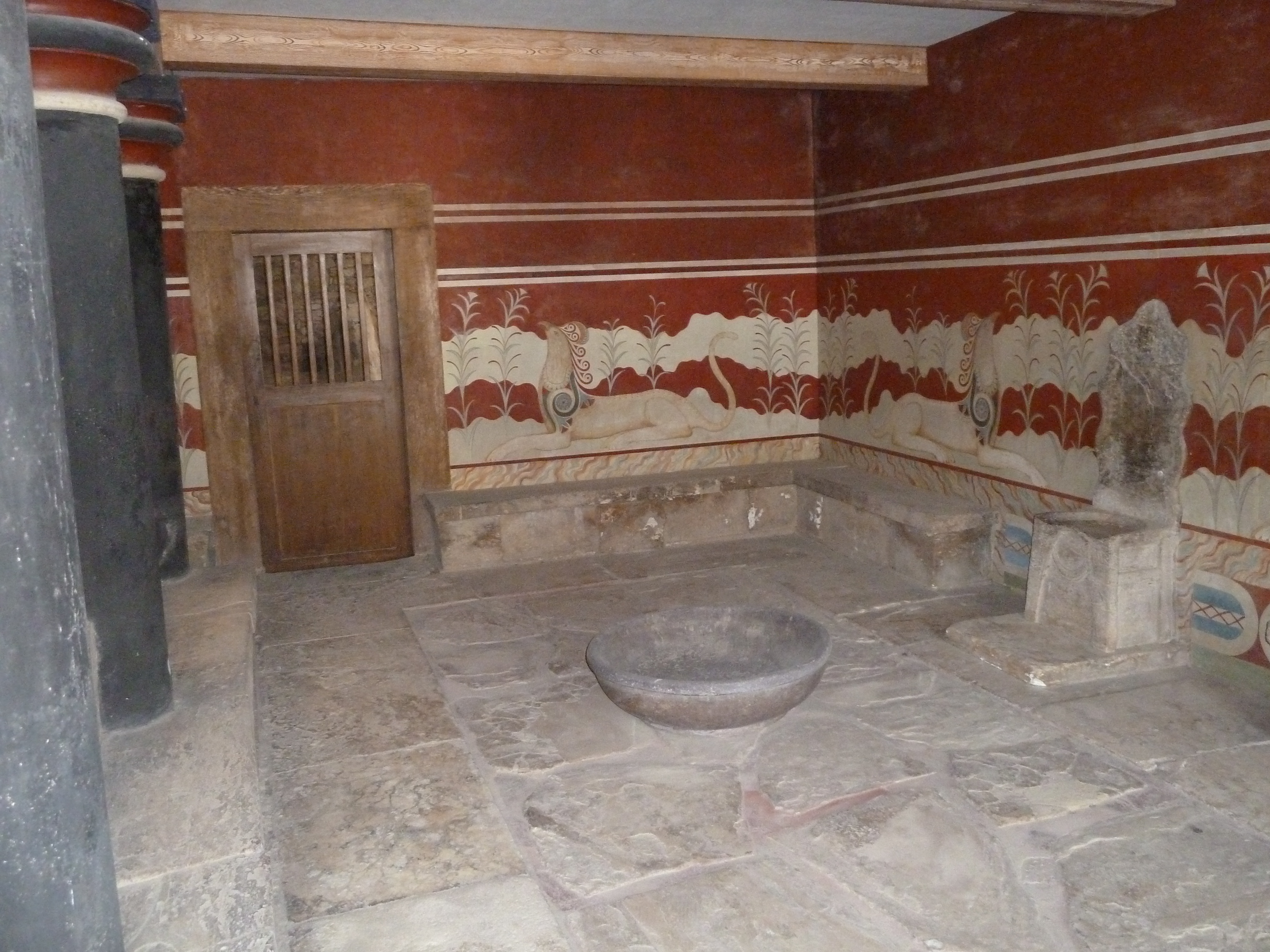 Minoean Pallace, Knossos, Crete, Greece